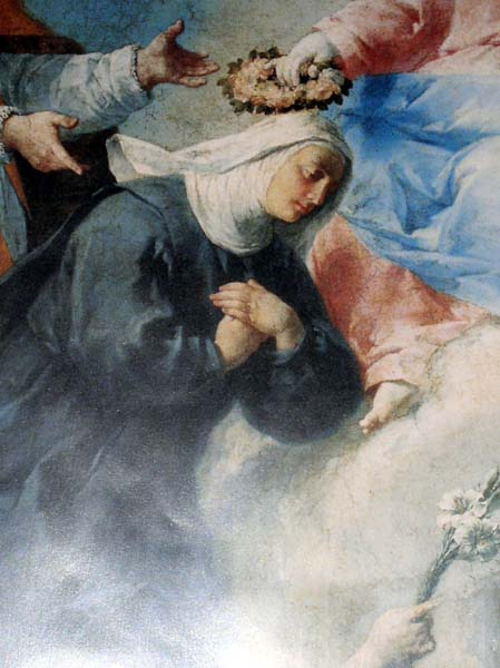 Crowning of blessed Giuliana Puricelli, by Biagio Bellotti, 1780 (Busto Arsizio, S. Giovanni)